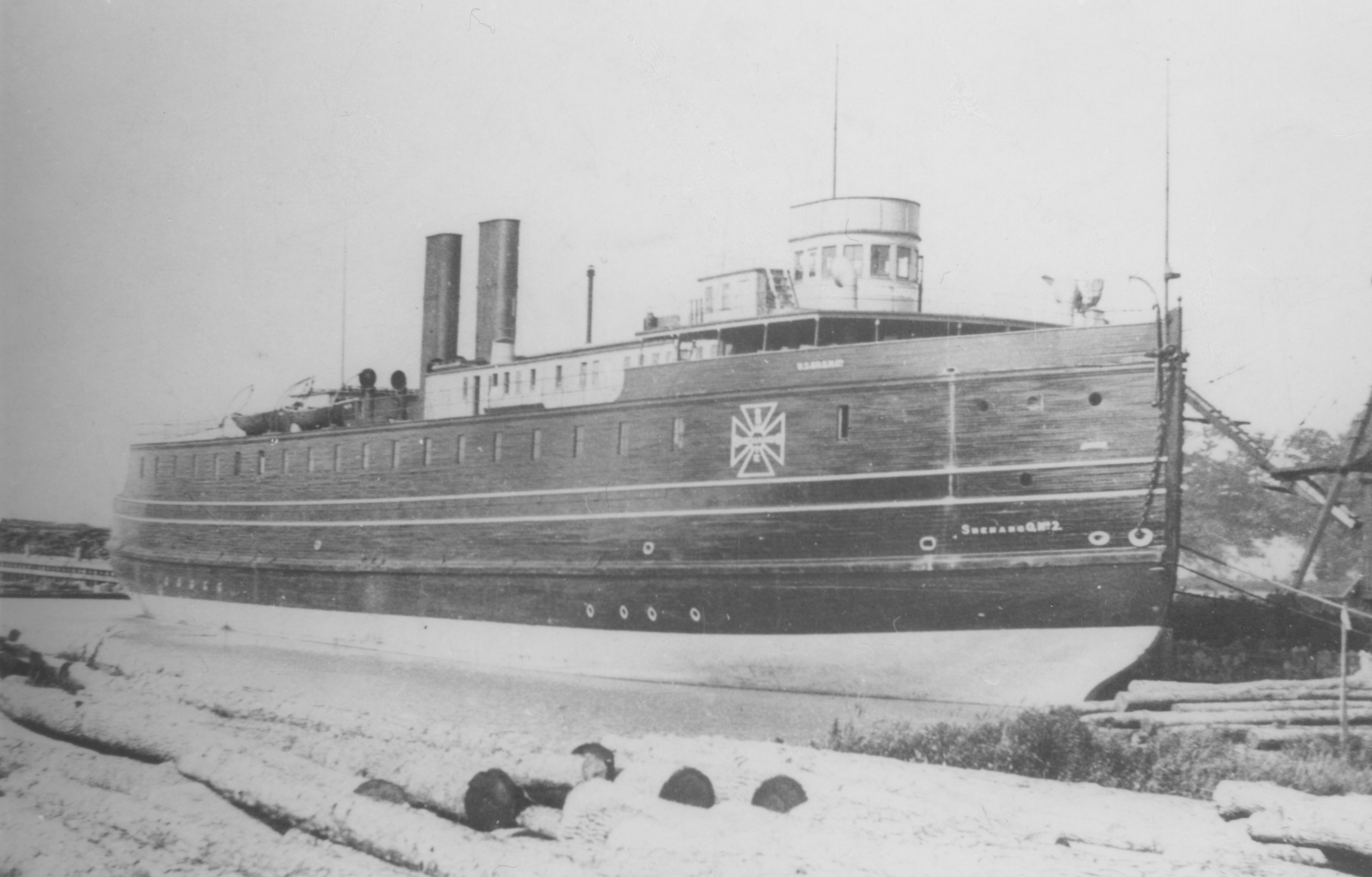 The ferry Shenango No.2 prior to her conversion to a bulk carrier